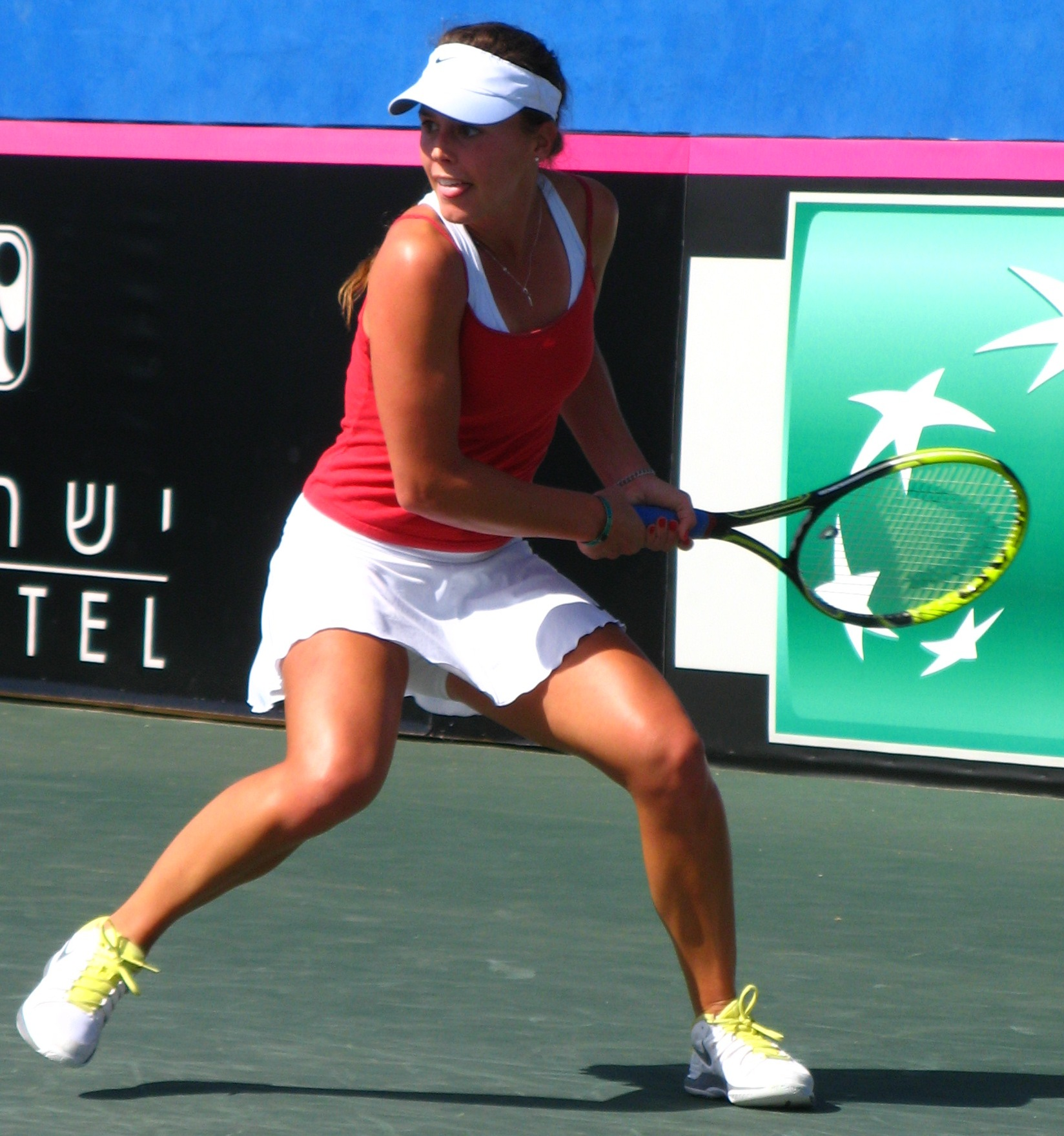 The tennis player Michelle Larcher de Brito of Portugal during her match against Tímea Babos of Hungary in the 2nd day of Fed Cup Group I 2013 Europe/ Africa in Eilat, Israel.